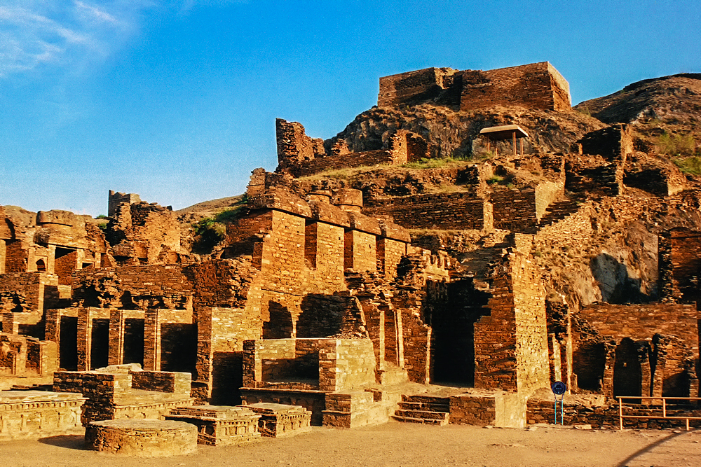 Takht-i-Bahi Buddhist ruins This is a photo of a monument in Pakistan identified as the KPK-34